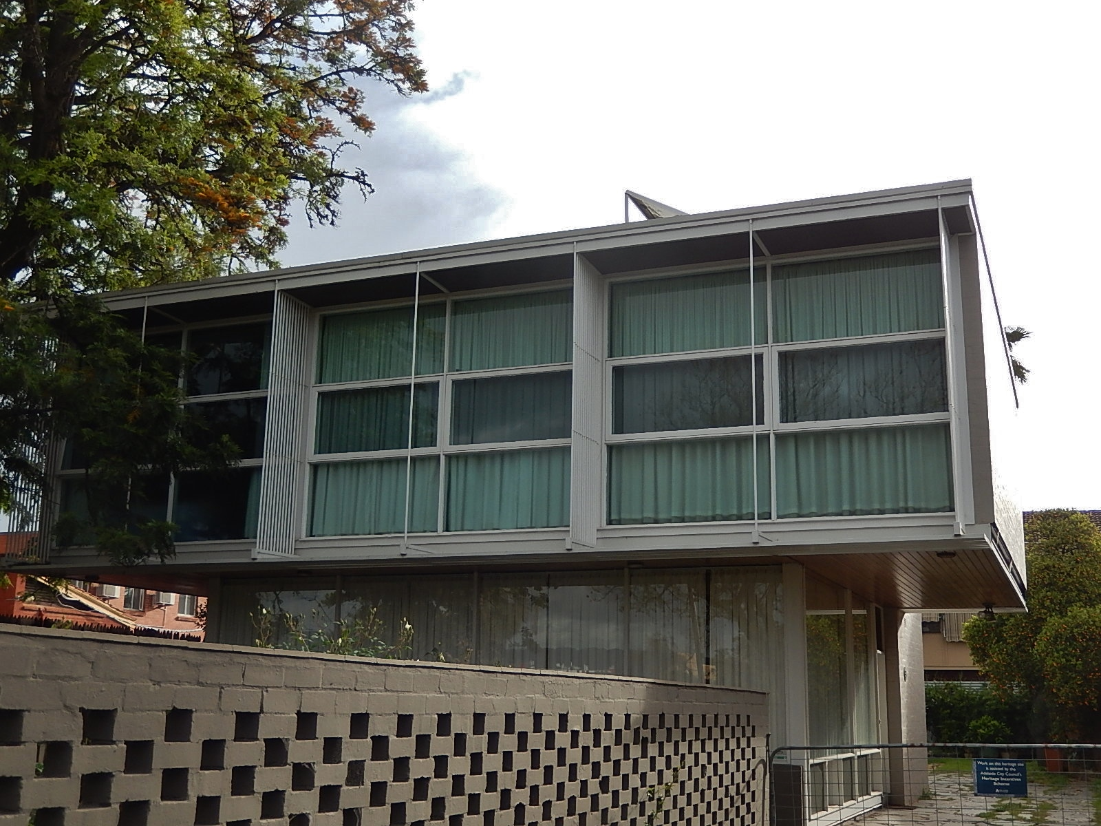 Designed by Robin Boyd